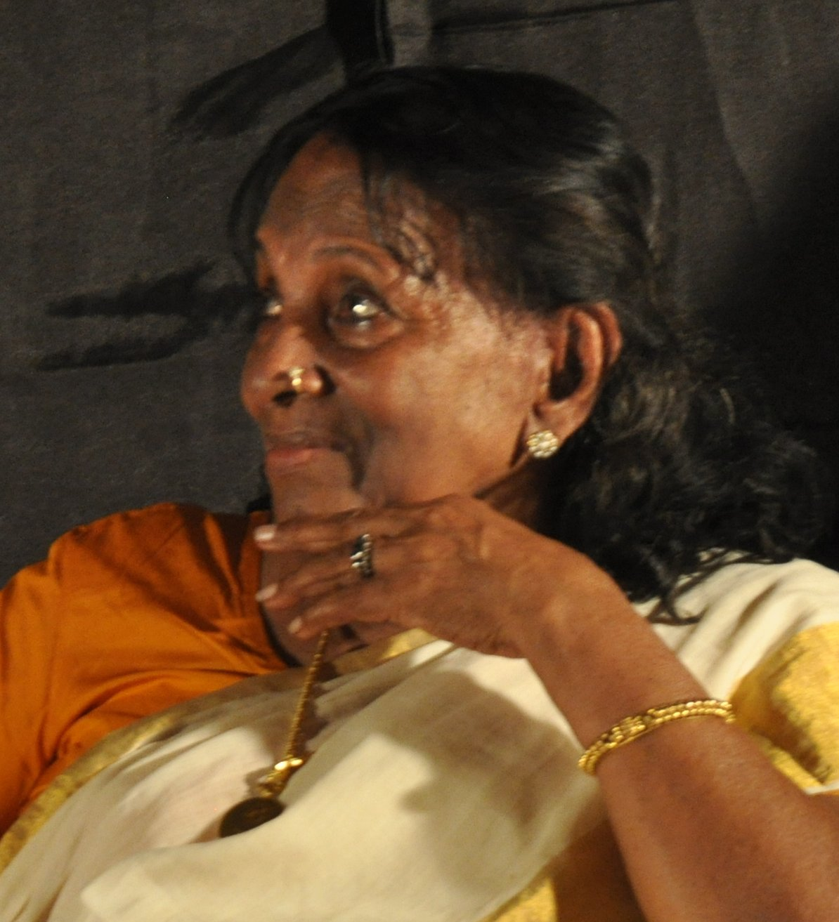 Malayalam drama actress, Vijayakumari O. Madhavan